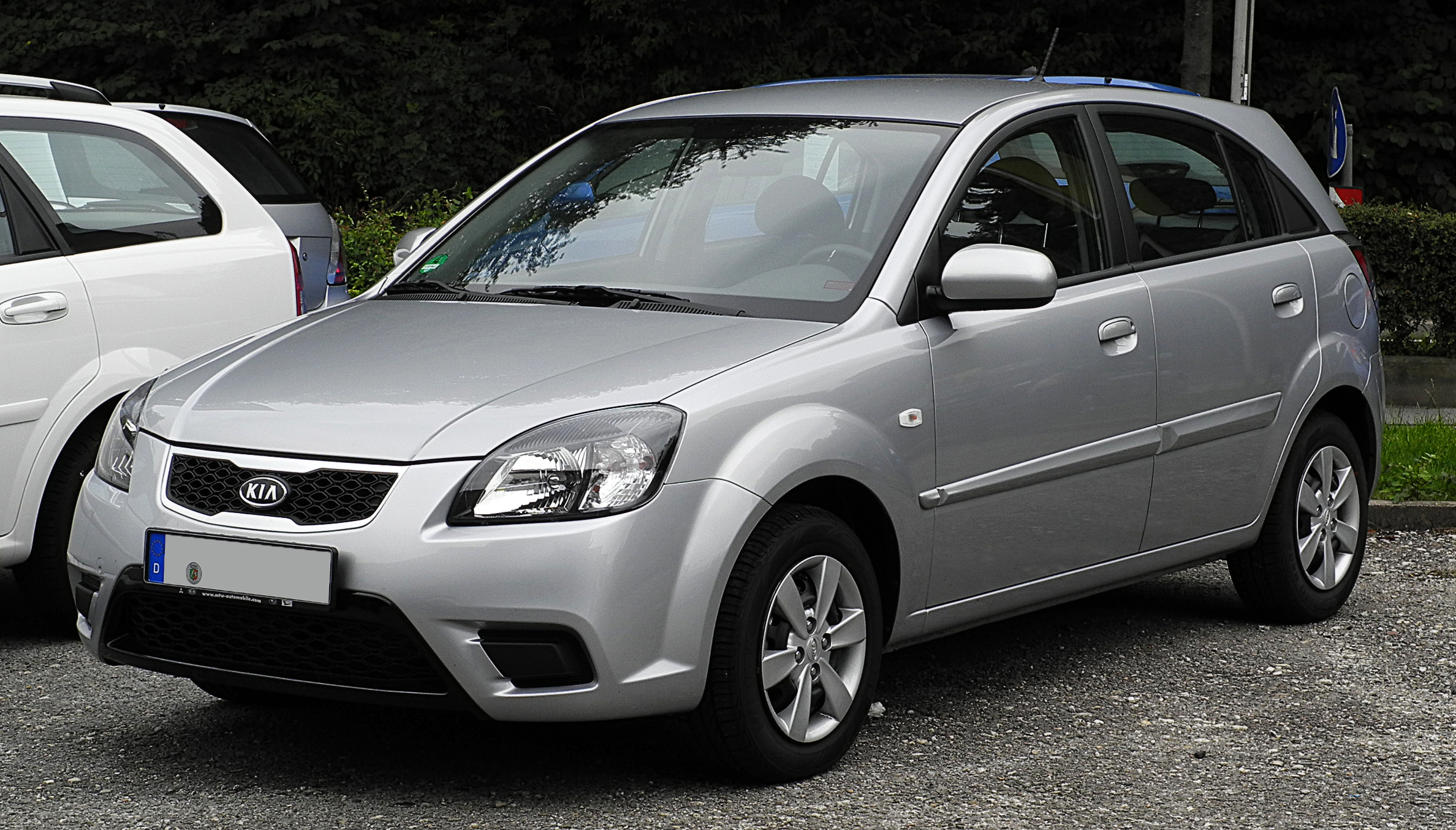 Kia Rio (DE, Facelift)